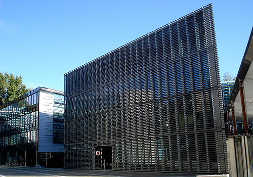 Embassy of Finland, Berlin